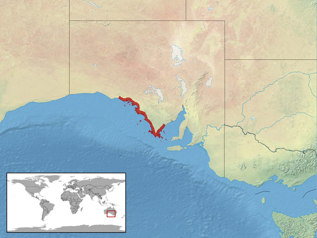 geographic distribution of Pseudemoia baudini